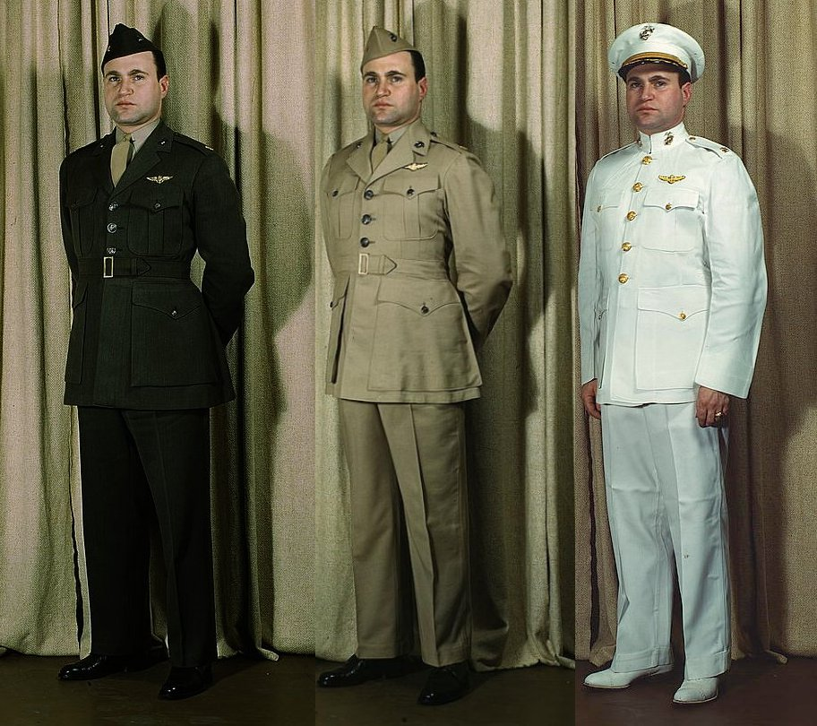 Three scanned photographs trimmed and placed side by side